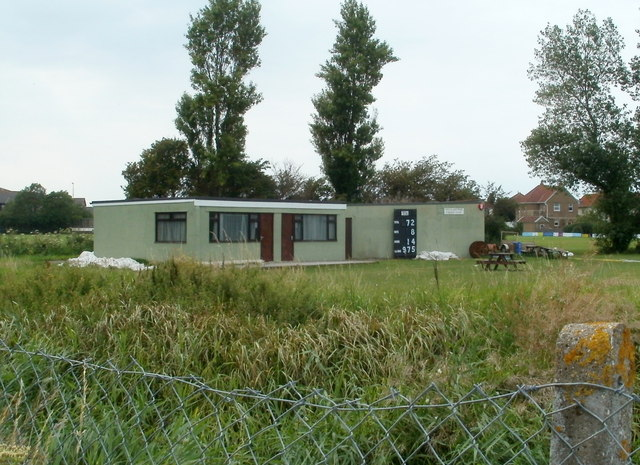 Pavilion, Weston-super-Mare Cricket Club